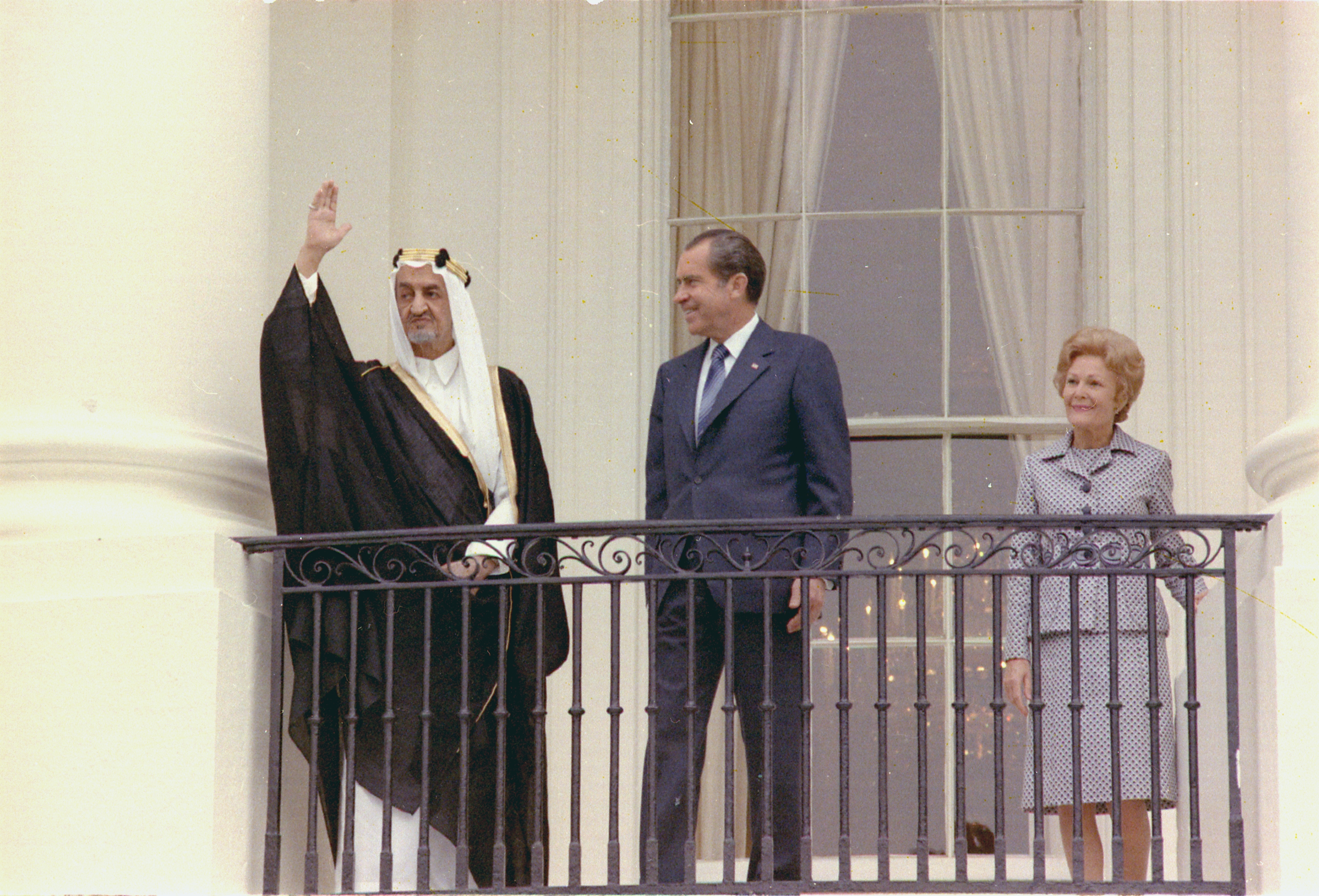 King Faisal Ibn Abd Al-Aziz of Saudi Arabia, President Nixon, Mrs Nixon. Arrival ceremony welcoming King Faisal of Saudi Arabia.